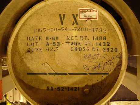 The valve end of the last Newport TC before it is drained of nerve agent VX.